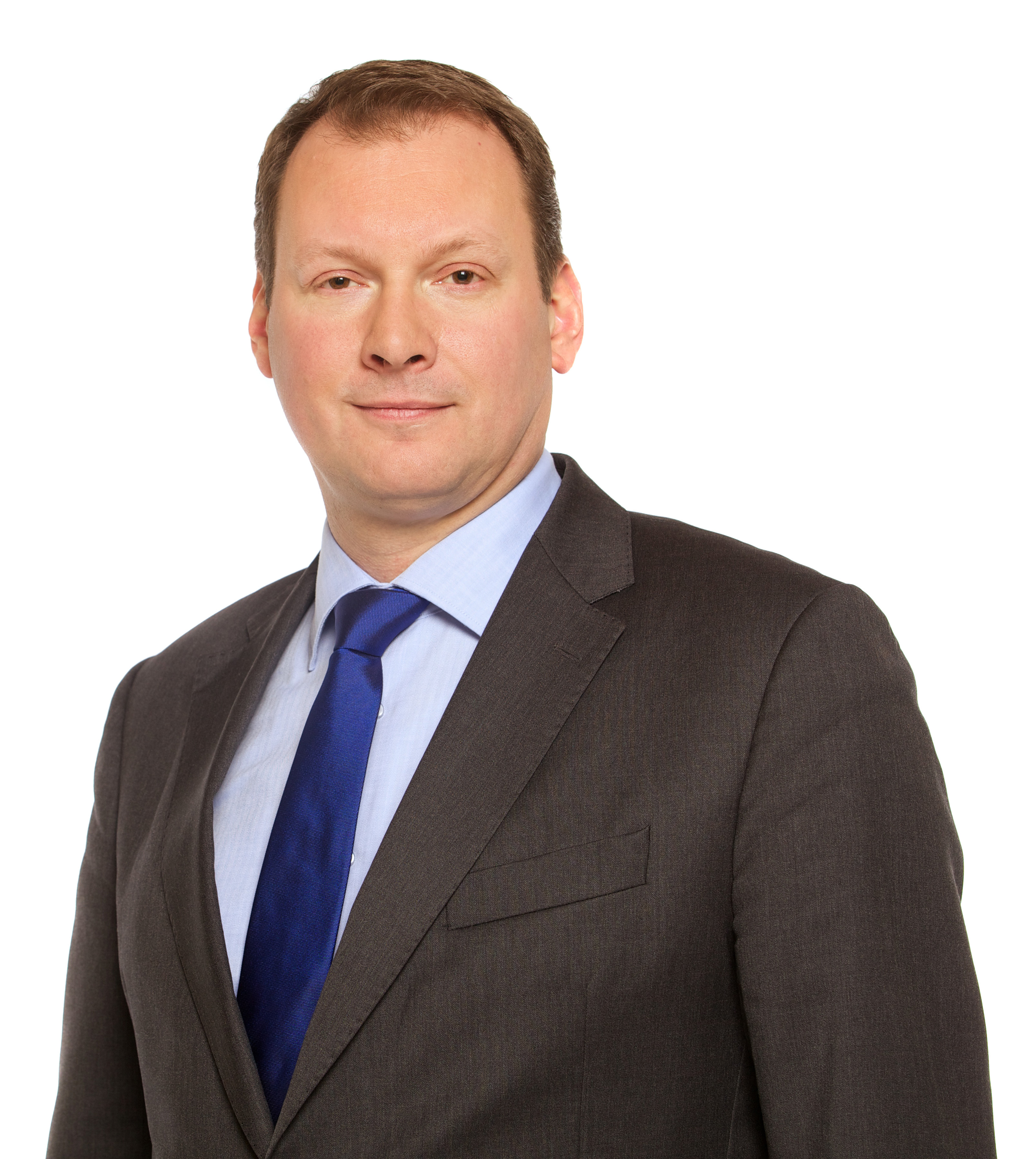 Matthijs van Miltenburg - Candidate for the European Parliament for D66. This portrait has been commissioned by the European office of D66 for the European elections in May 2014.